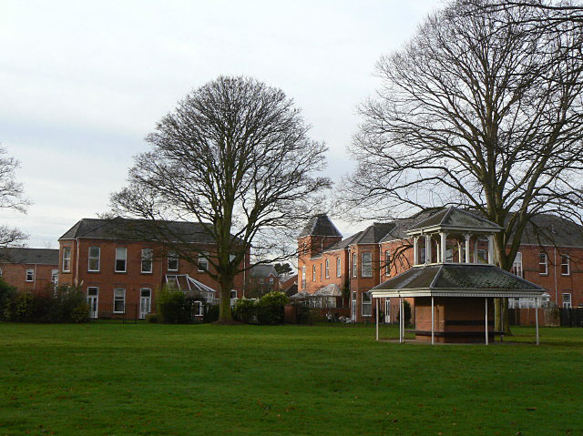 Housing at Upper Saxondale These are some of the buildings 'inherited' from Saxondale Hospital. The open space was developed for the enjoyment of patients and has been maintained, with several of these fine shelters.